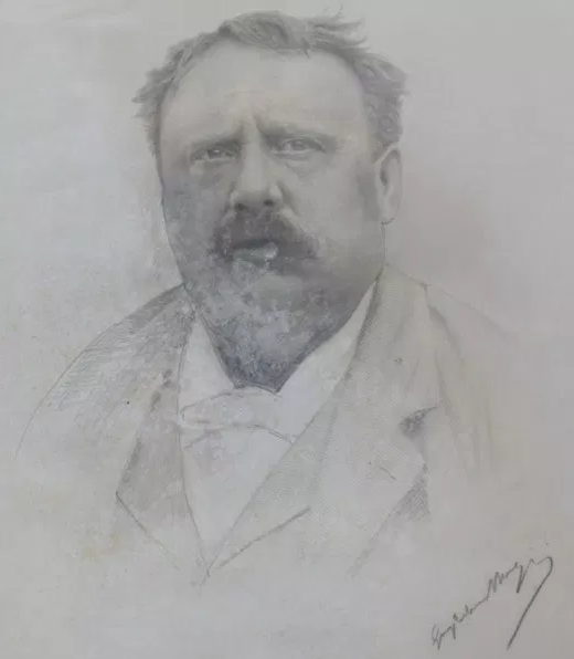 Leopoldo-muzii